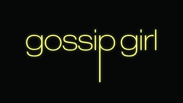 This is a title card for Gossip Girl (TV series).